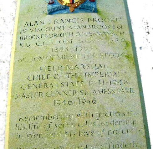 Lord Alanbrooke's gravestone (Original text also include: Picture taken by R Neil Marshman (c))